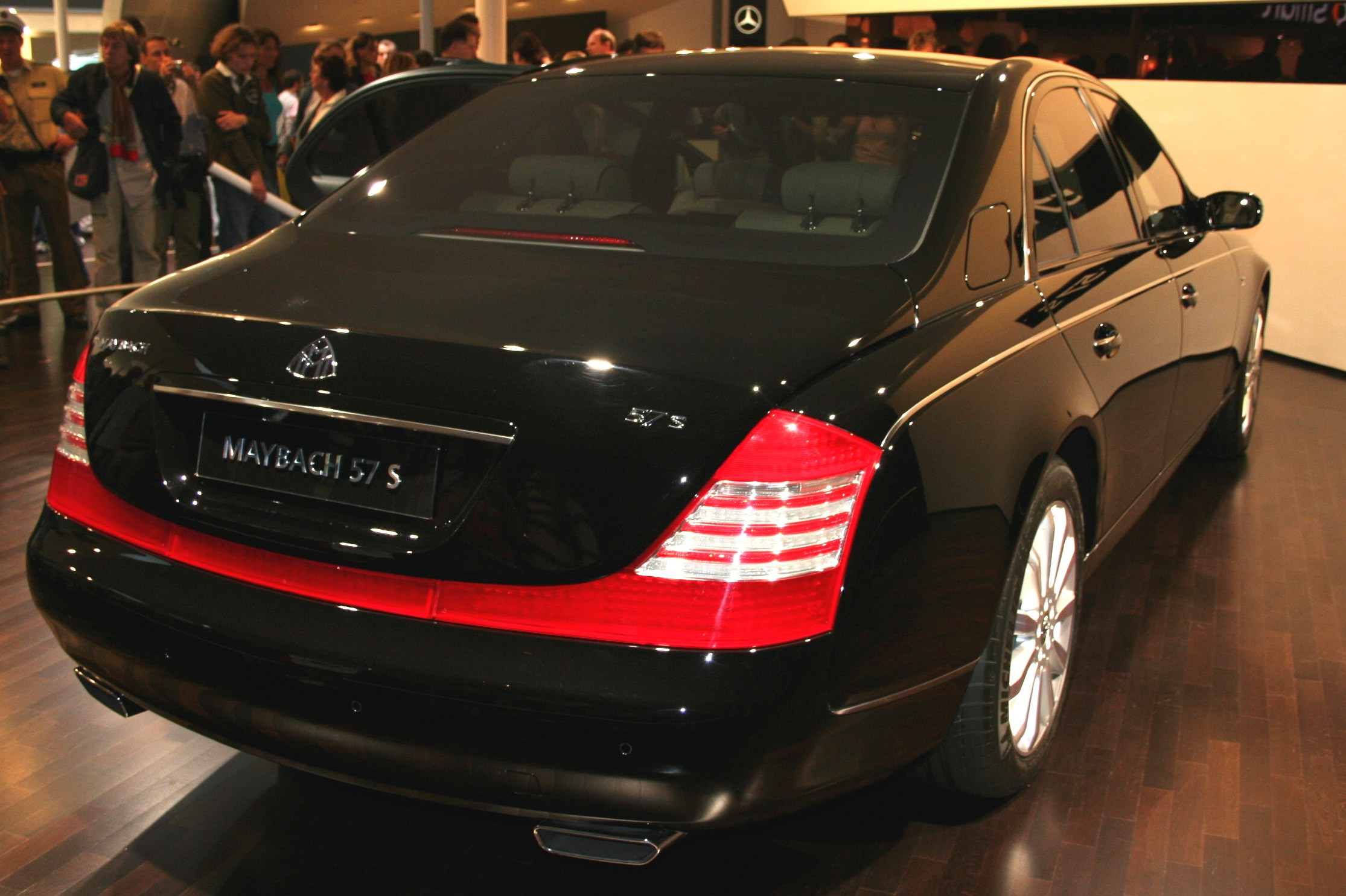 Maybach 57S (back view) on IAA 2005 Photo taken by Ygrek, 17th September 2005.